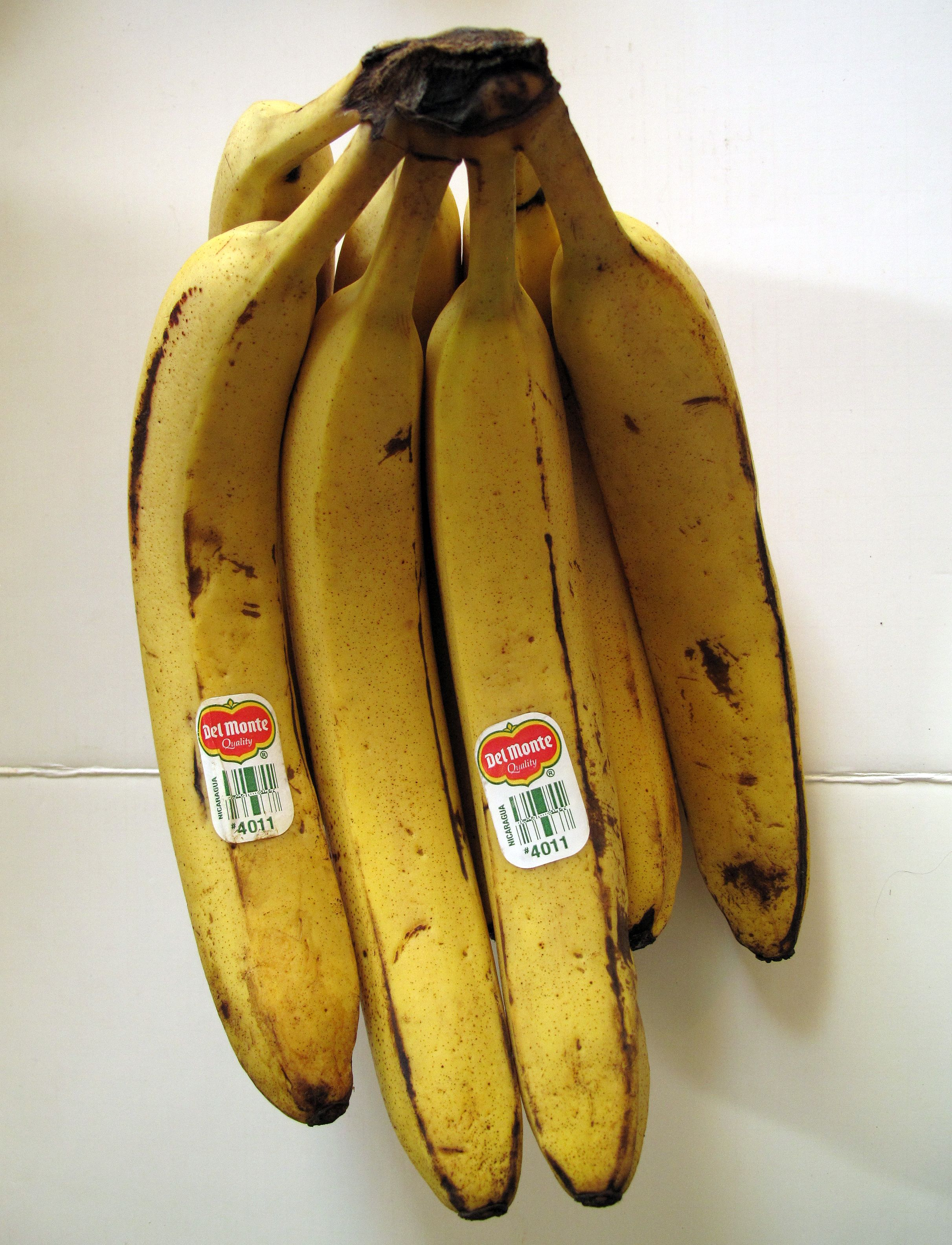 Bananas from Nicaragua, Del Monte brand, purchased in Los Angeles, California